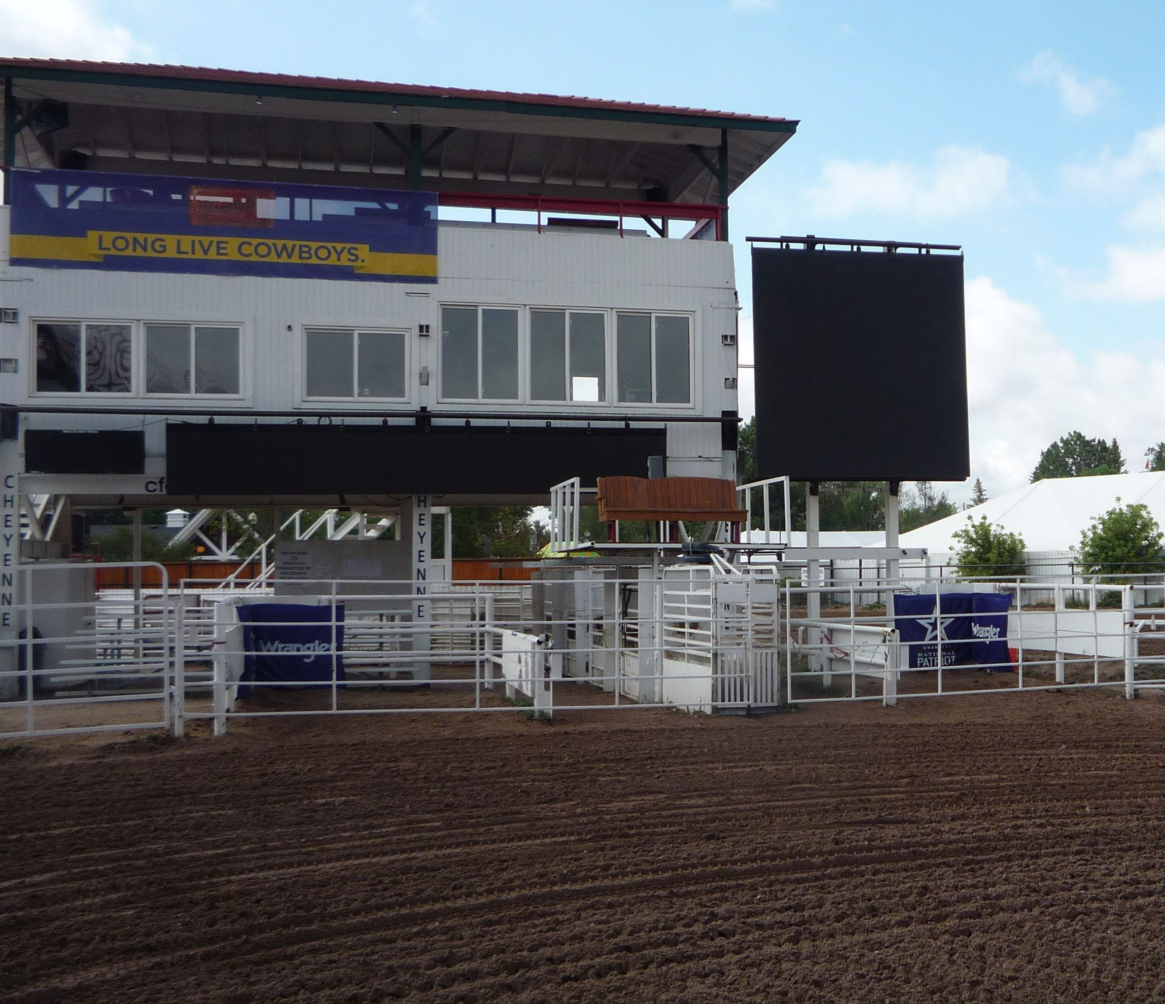 A picture of the famous Chute 9 at Cheyenne Frontier Days. Chute 9 is a timed-event chute for events like tie-down roping and steer wrestling.